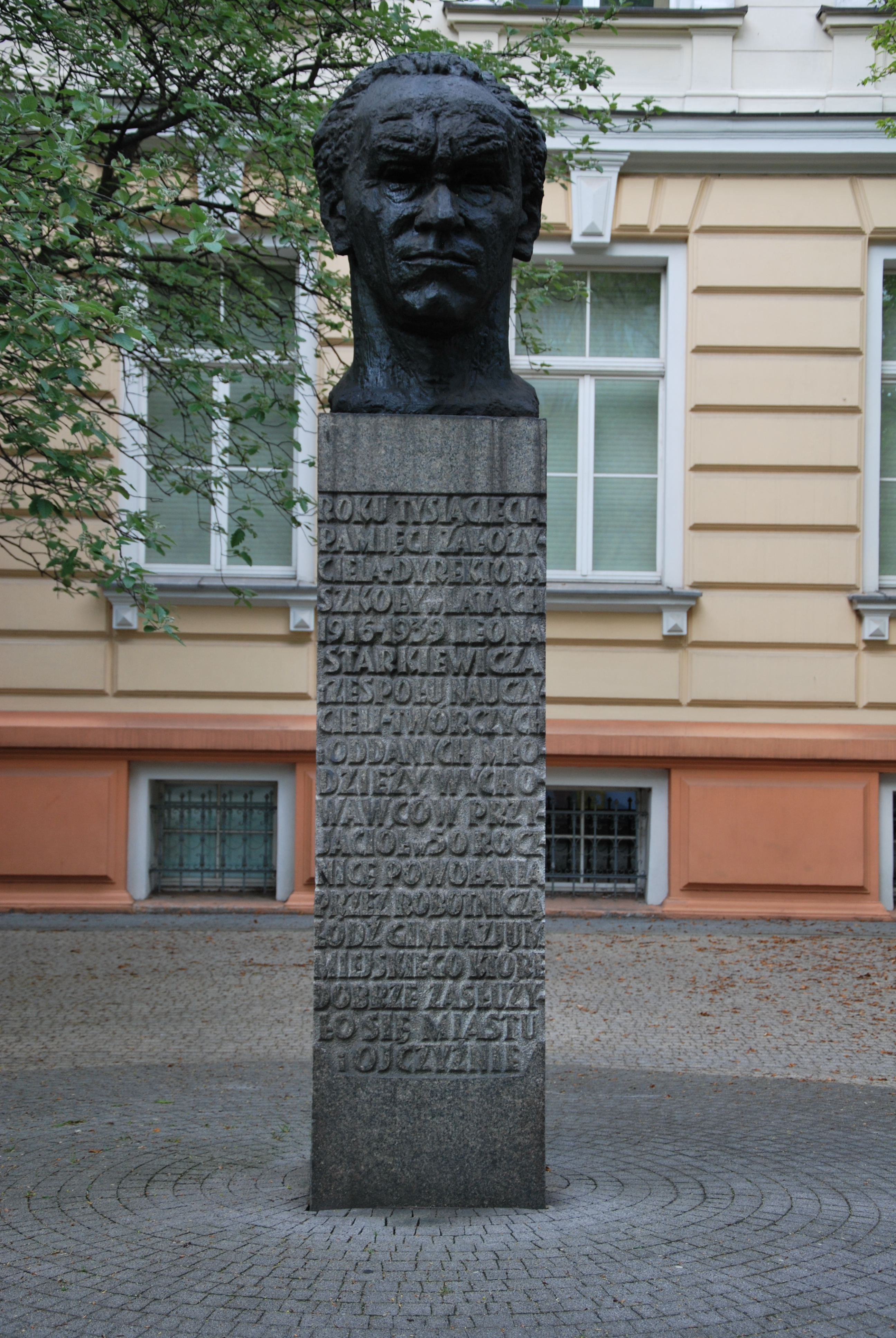 Bust of Leon Starkiewicz, first head of III Lyceum in Łódź, Sienkiewicza Street